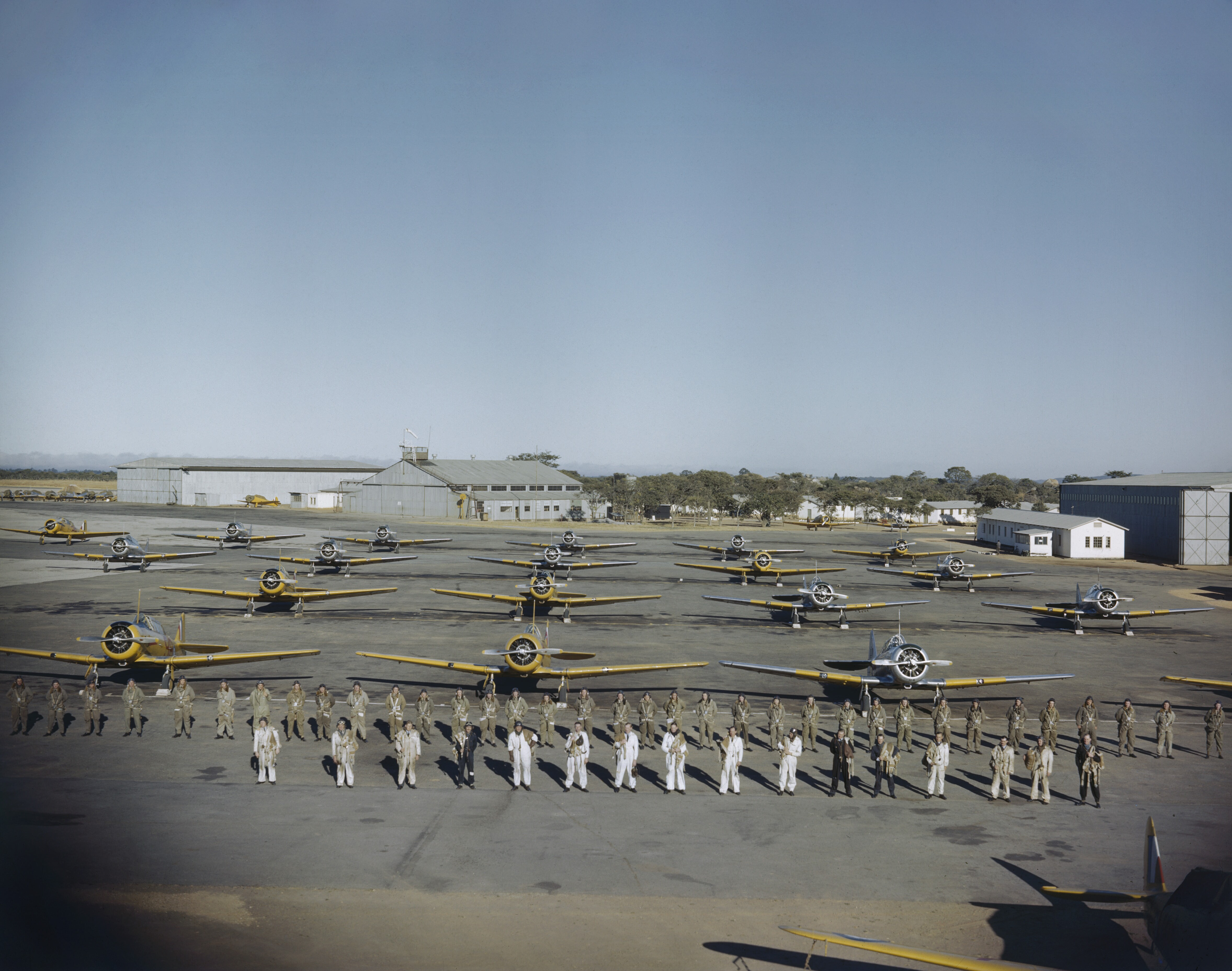 Commonwealth Joint Air Training Plan, No 20 Service Flying Training School, Cranborne, Near Salisbury, Rhodesia, January 1943 Sixteen instructors (front row) and pupils parade with North American Harvard aircraft. The Harvard was the standard equipment for advanced pilot instruction which took place at Service Flying Training Schools.